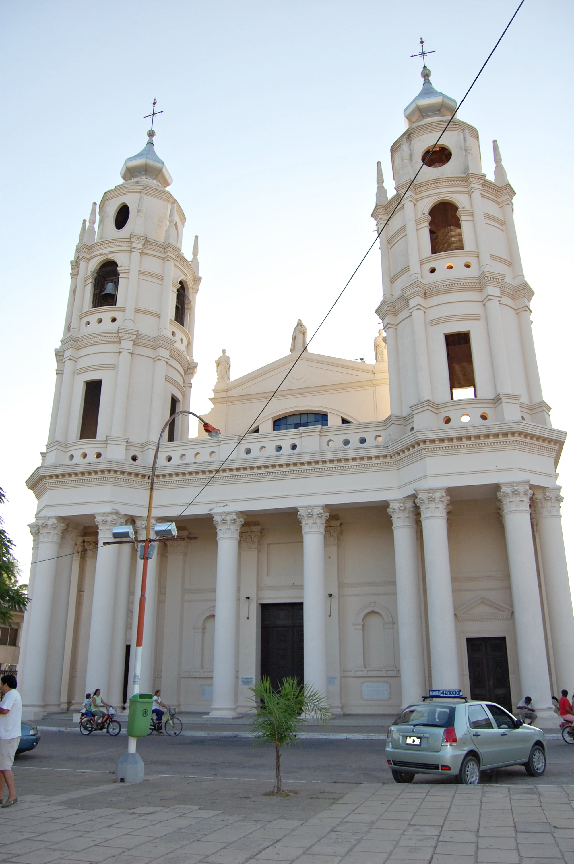 Cathedral of Our Lady of the Rosary, in front of Plaza Mitre, in the city of Goya, Corrientes, Argentina. It is the Cathedral of the Diocese of Goya. Daytime view The towers were rebuilt in 1983, after their collapse.